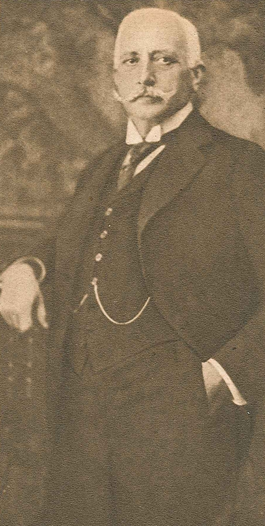 Adam Lewenhaupt (1861-1944), Swedish count, courtier, genealogist and National Herald.